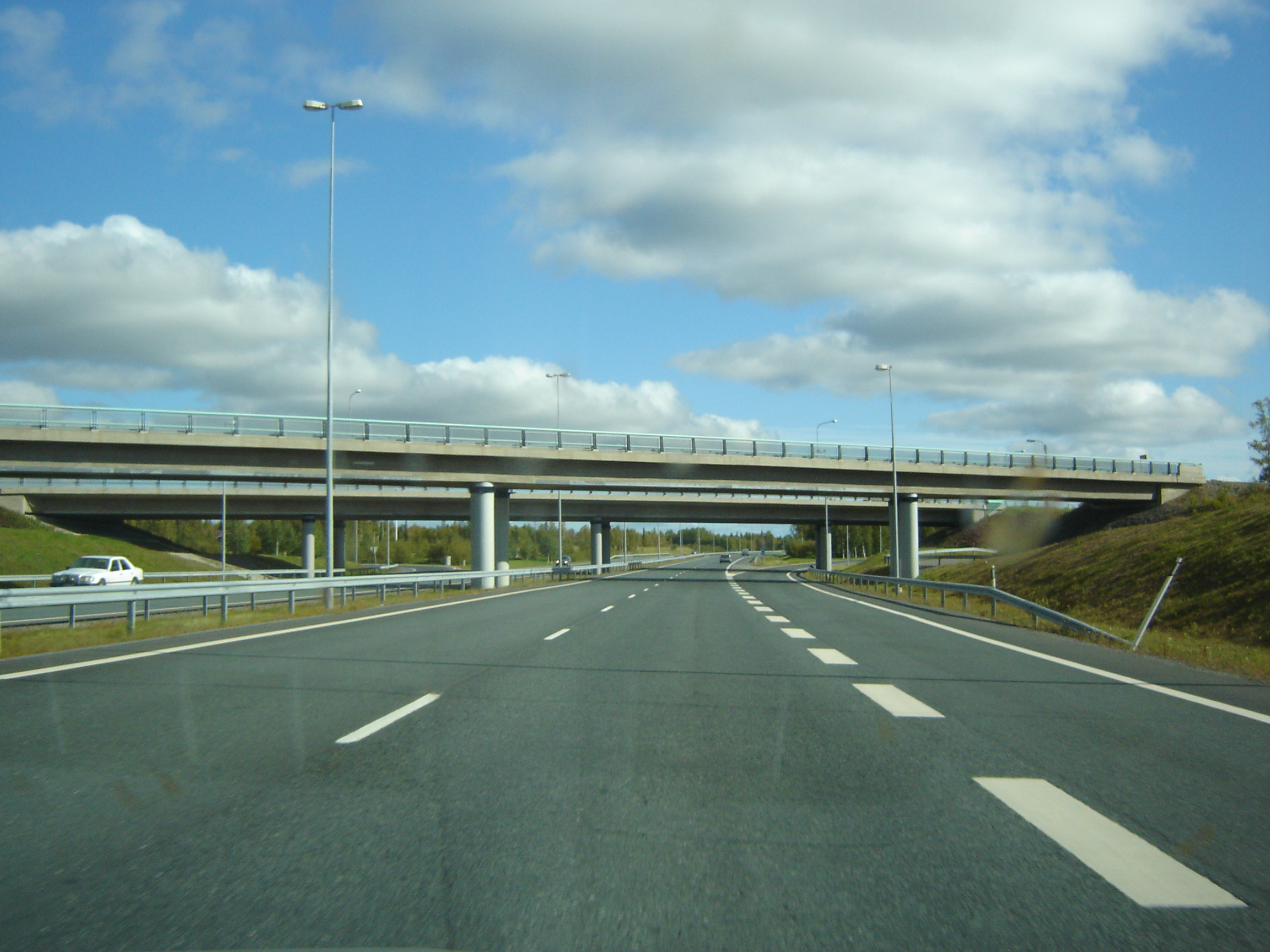 National road 29 (E8) in Tornio, Finland at the Kyläjoki junction. This is the northernmost motorway in the world.